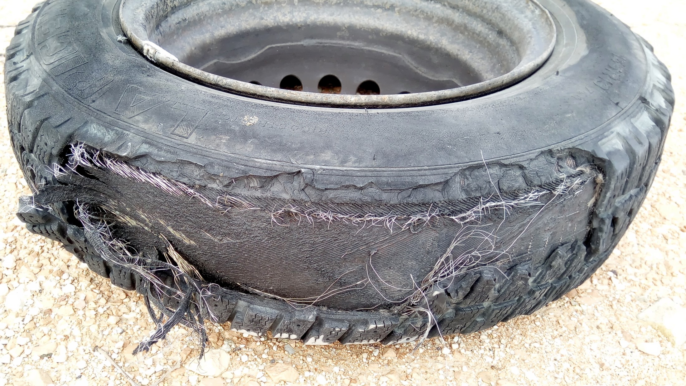 Rebuilt exploded winter tire